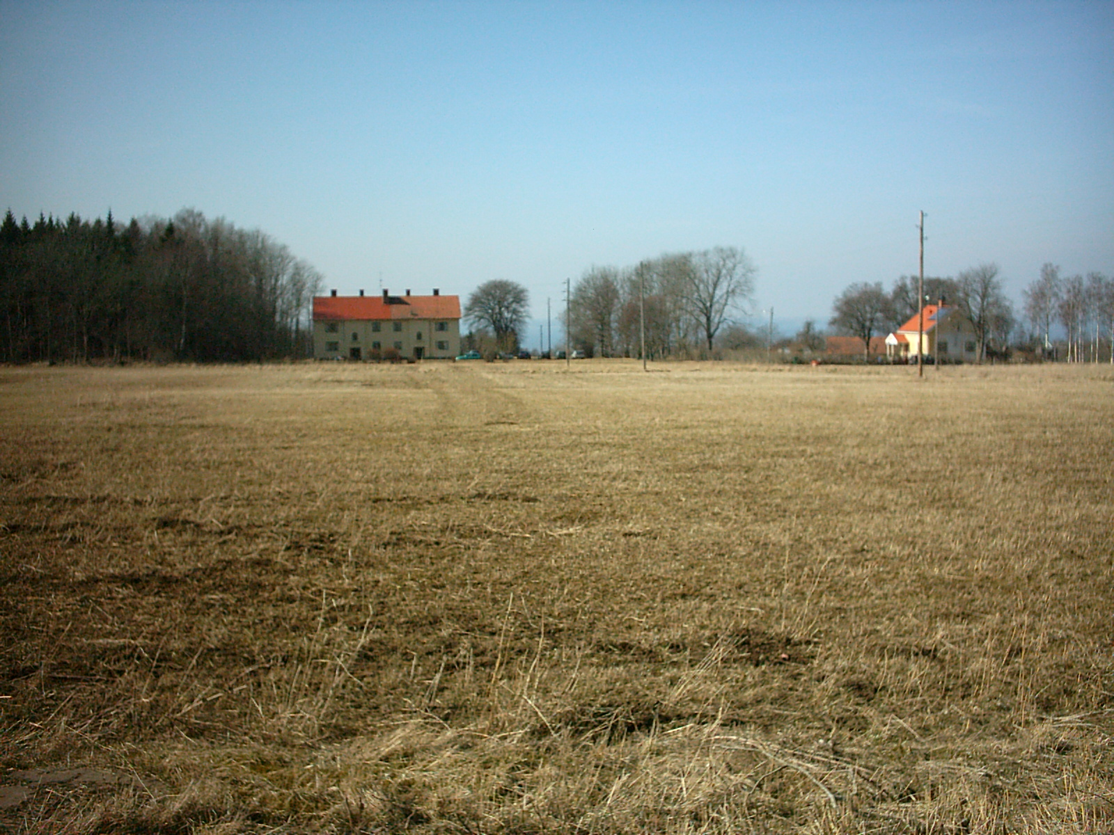 Here is an picture of a field.